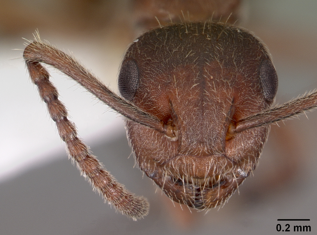 Head view of ant Forelophilus overbecki specimen casent0102378.